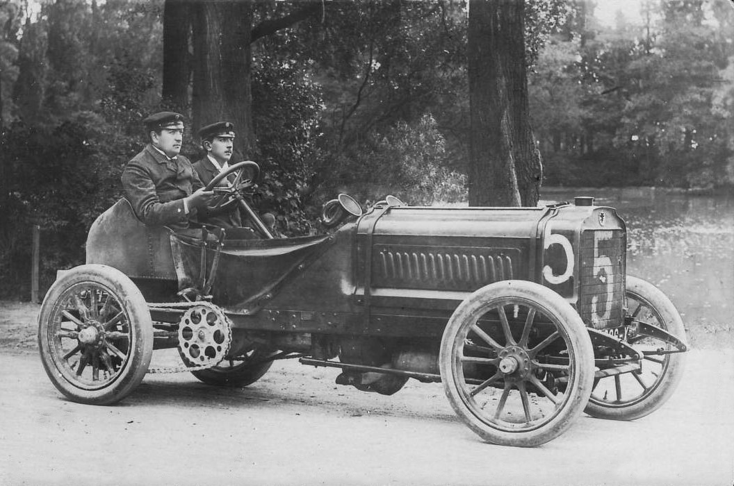 Leon Thery, winner of the 1904 Gordon Bennett, driving a Richard-Brasier. Old postcard of 1904.